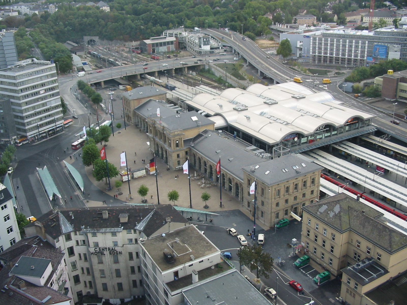 Mainz Main Station